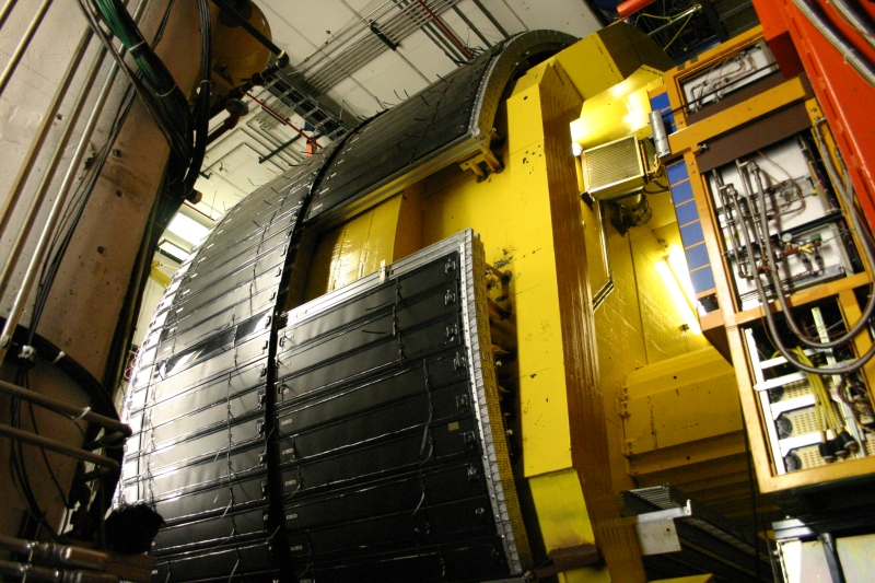 Collider Detector at Fermilab, Batavia, IL, United States.